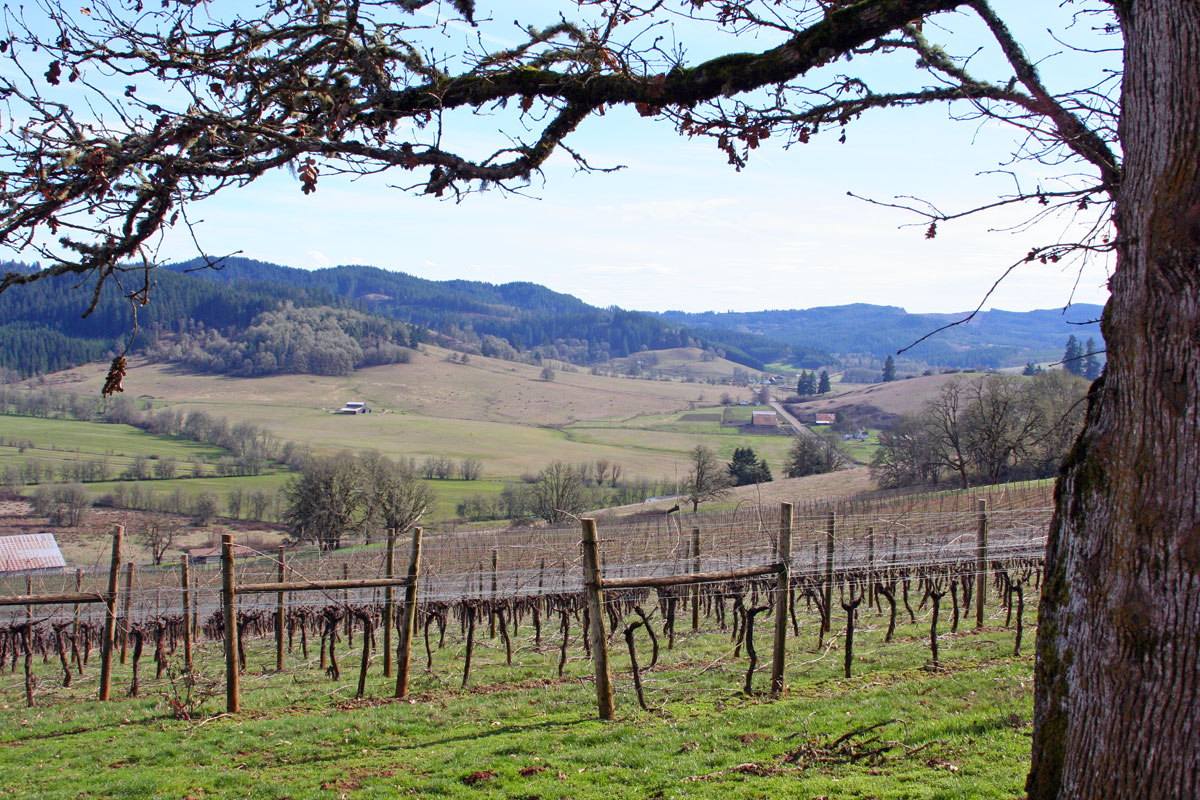 The Lorane Valley, from Sweet Cheeks Winery. Just over the hill from Eugene.